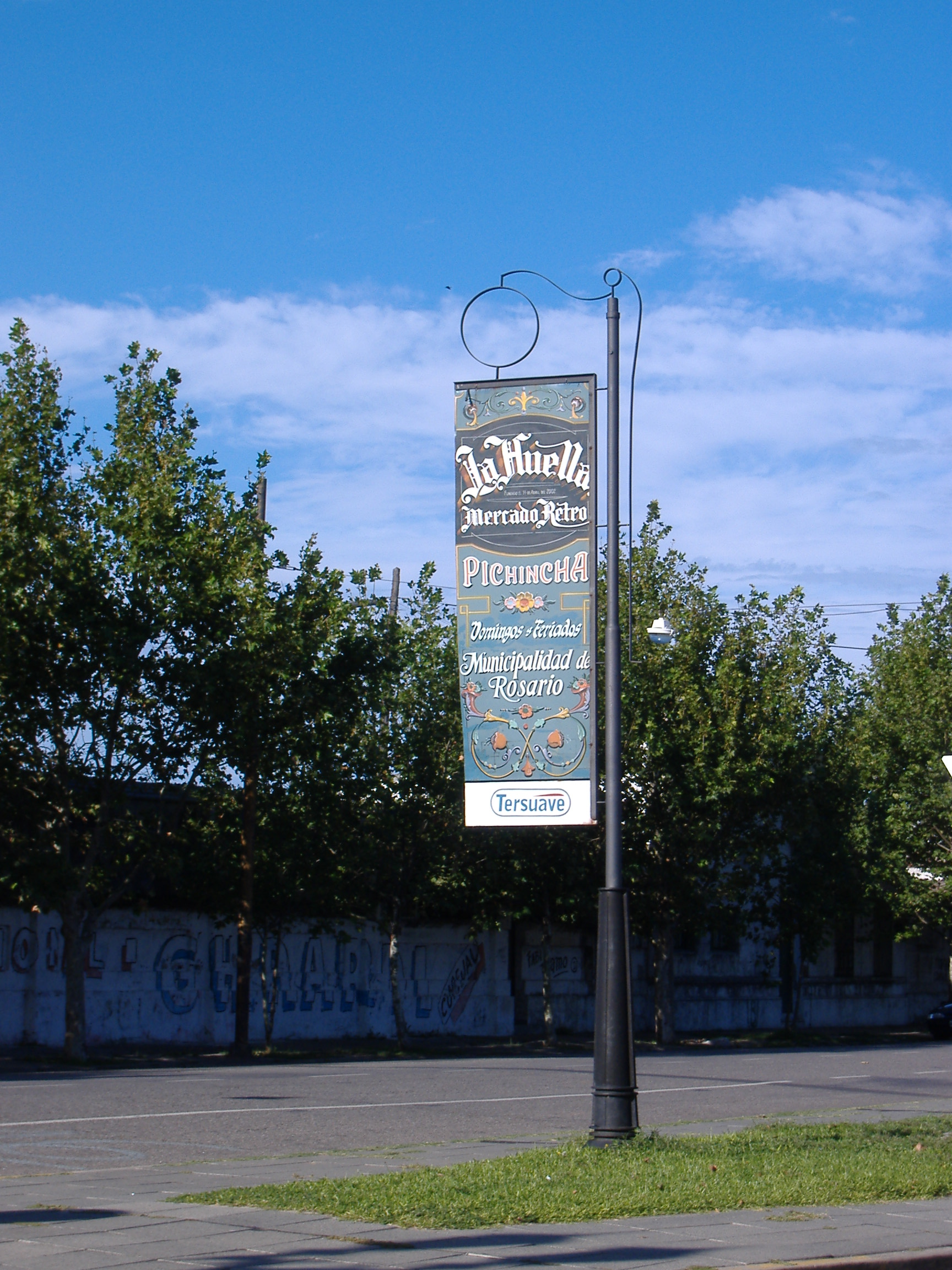 A sign on Wheelwright Ave., Rosario, Argentina, announcing the site of the "La Huella" Retro Market and Fair, in the barrio of Pichincha. This picture was taken by Pablo D. Flores on 11 March 2006.